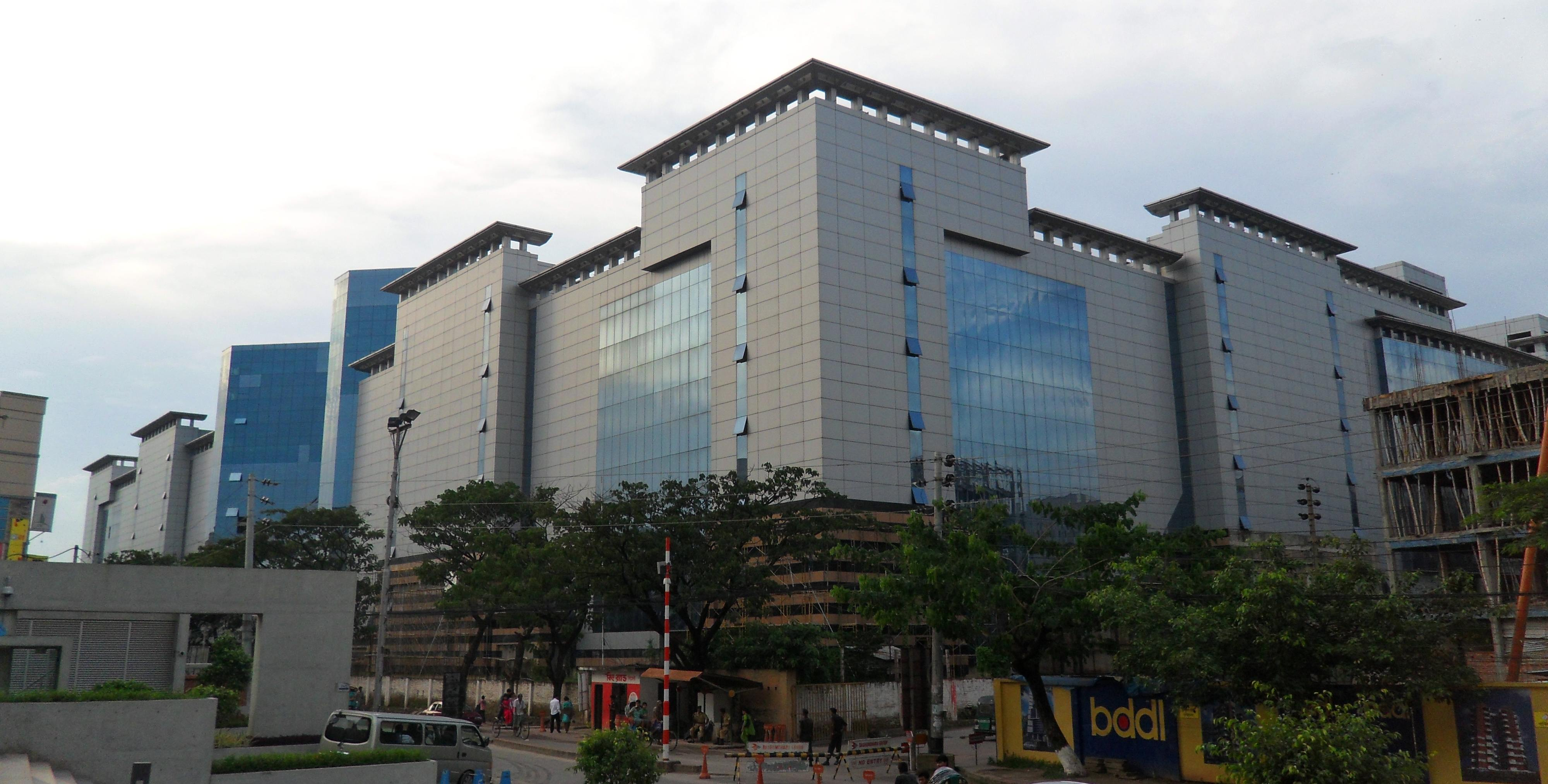 The exterior of Jamuna Future Park in Bangladesh.